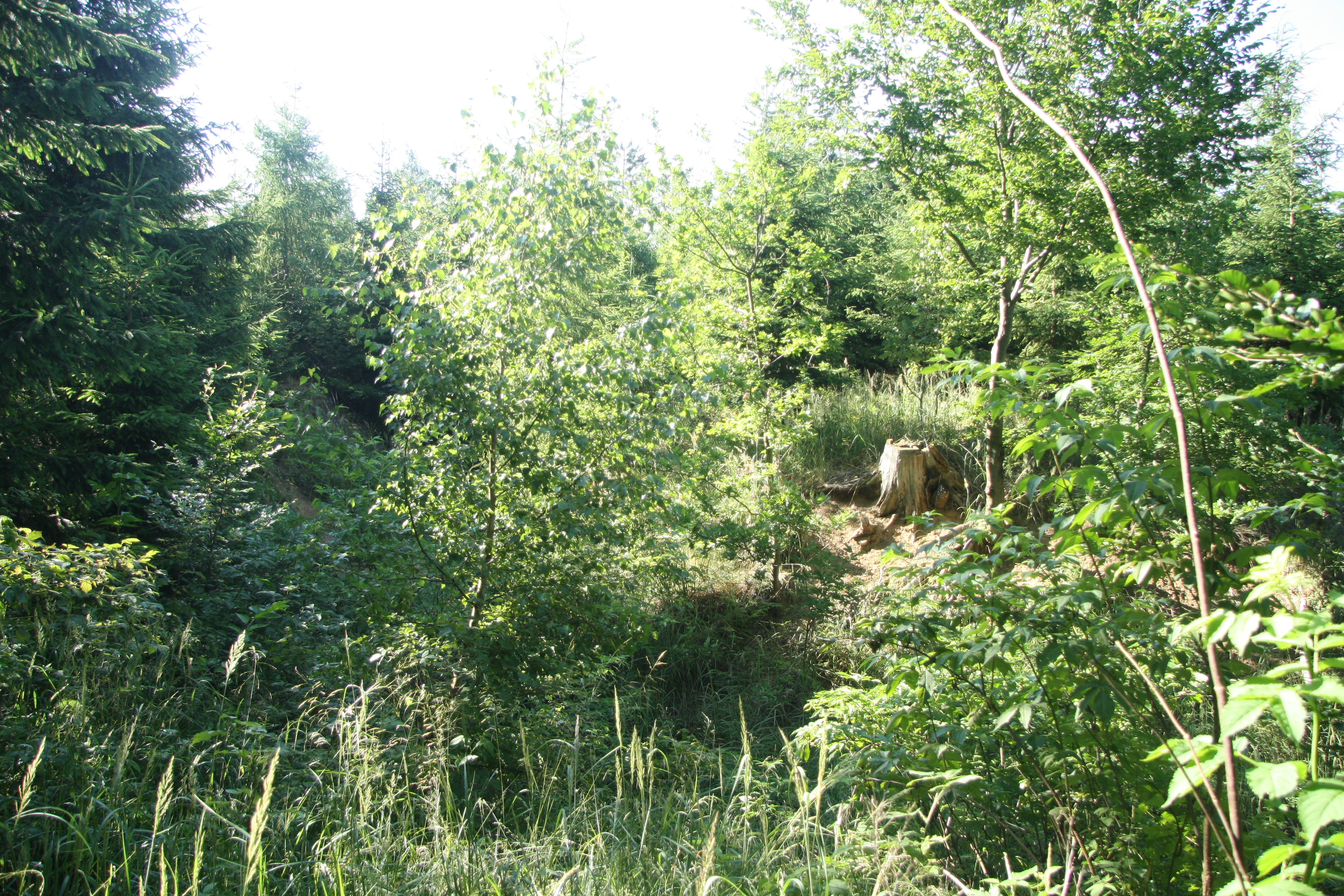 Hill near former Dašovice castle near Štěměchy, Třebíč District.